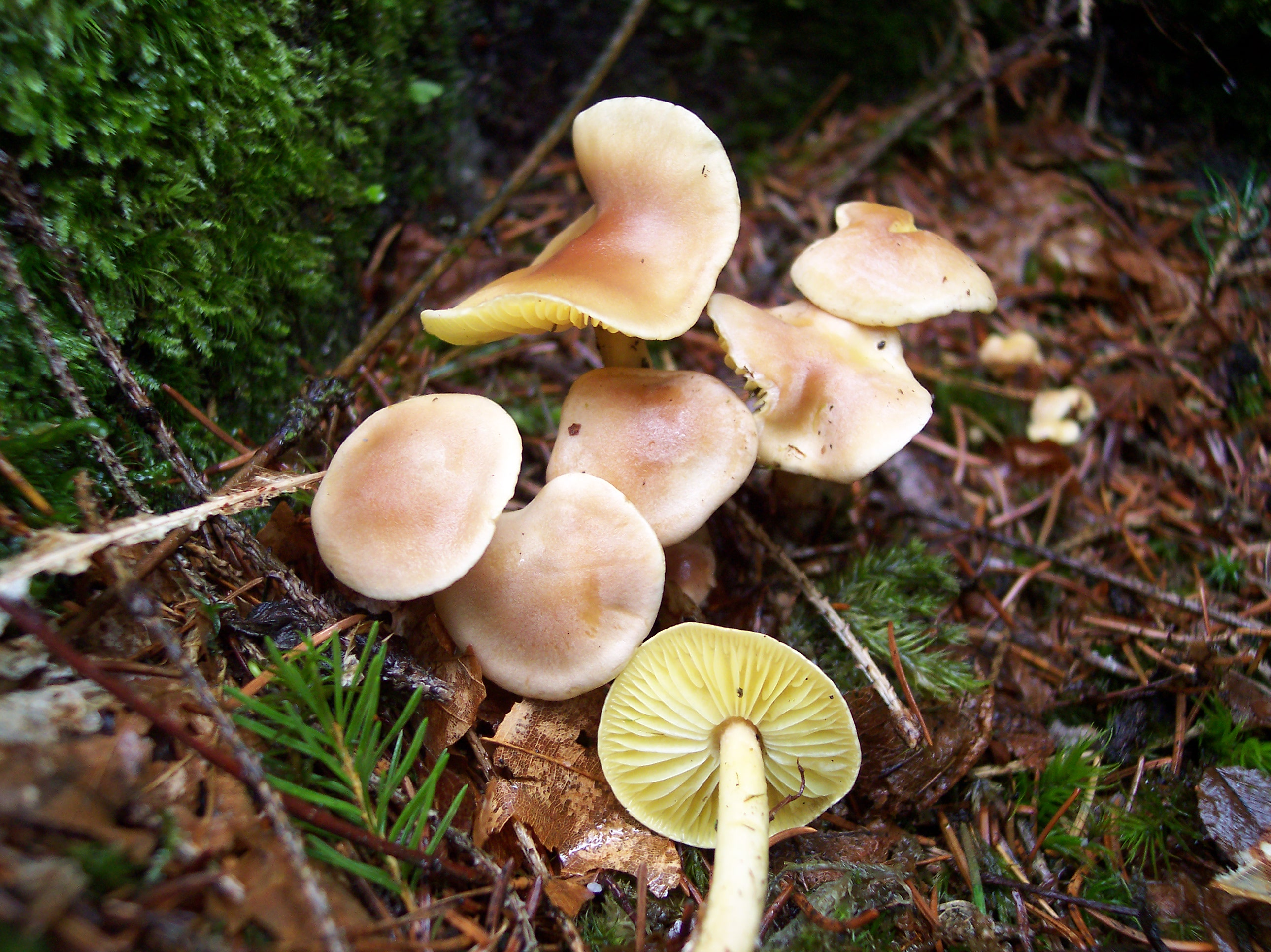 Gymnopus peronatus